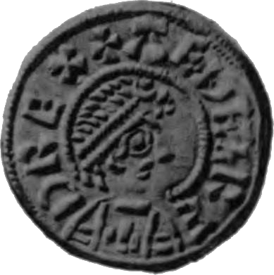 A coin of Æthelred, King of Wessex (died 871).